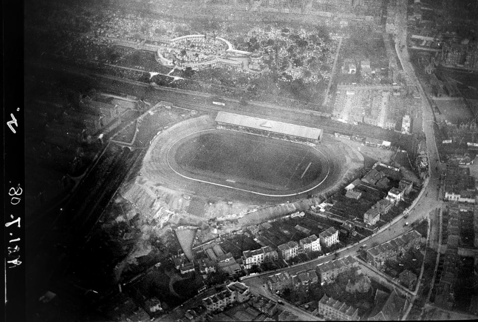 Black and white and blue all over: Chelsea's Stamford Bridge stadium with only one stand as it looked on November 7, 1909 from a Helium balloon